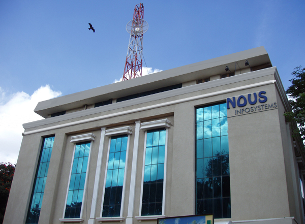 Nous Infosystems - Corporate Office - Bangalore, India